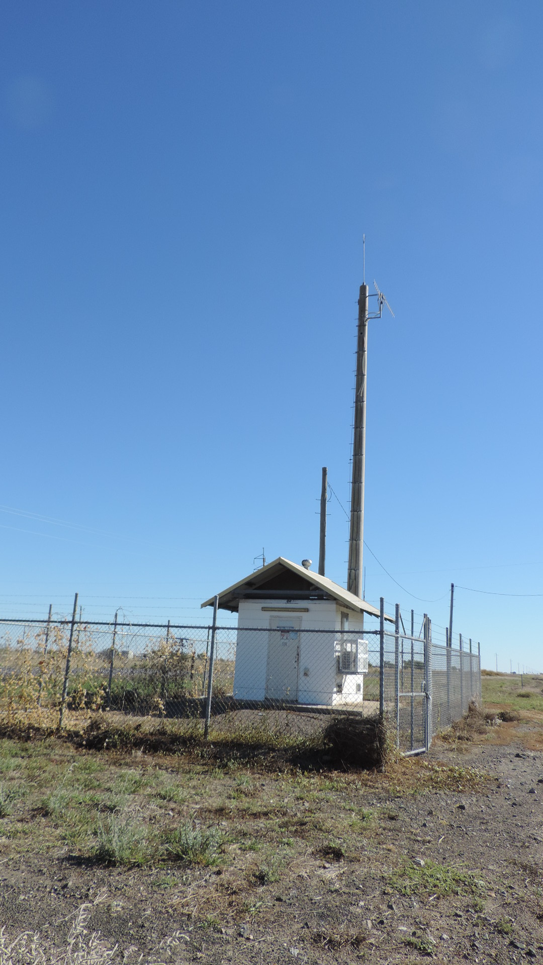 Shed (possibly telecommunications), Maxwelton, 2019